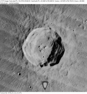 LO-IV-158H The triangular feature near the bottom margin is a defect in the Lunar Orbiter on-board development.